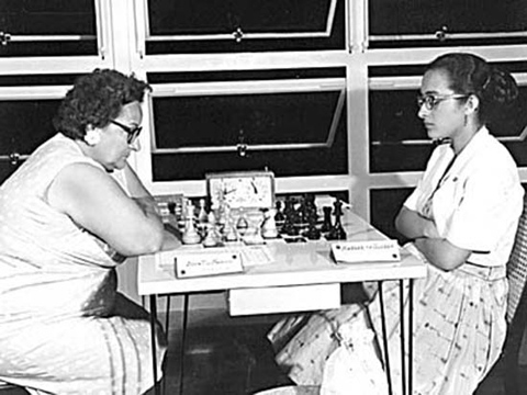 Dora Trepat de Navarro, Argentine champion (Left) Vs Marguerita Guerra, Peruvian champion.